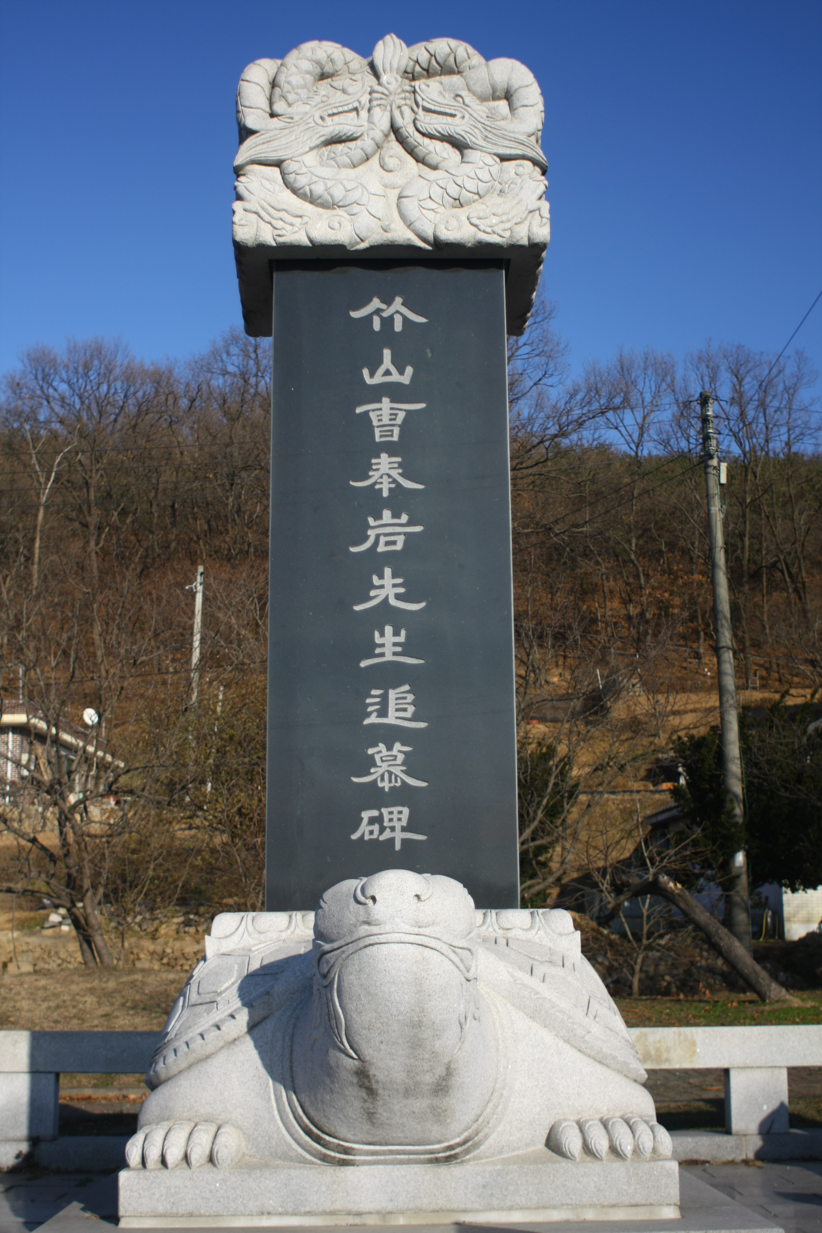 Memorial for Jo Bong-am who was a Korean Politician in Ganghwa, Korea